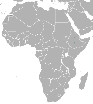 Ethiopian Wolf range